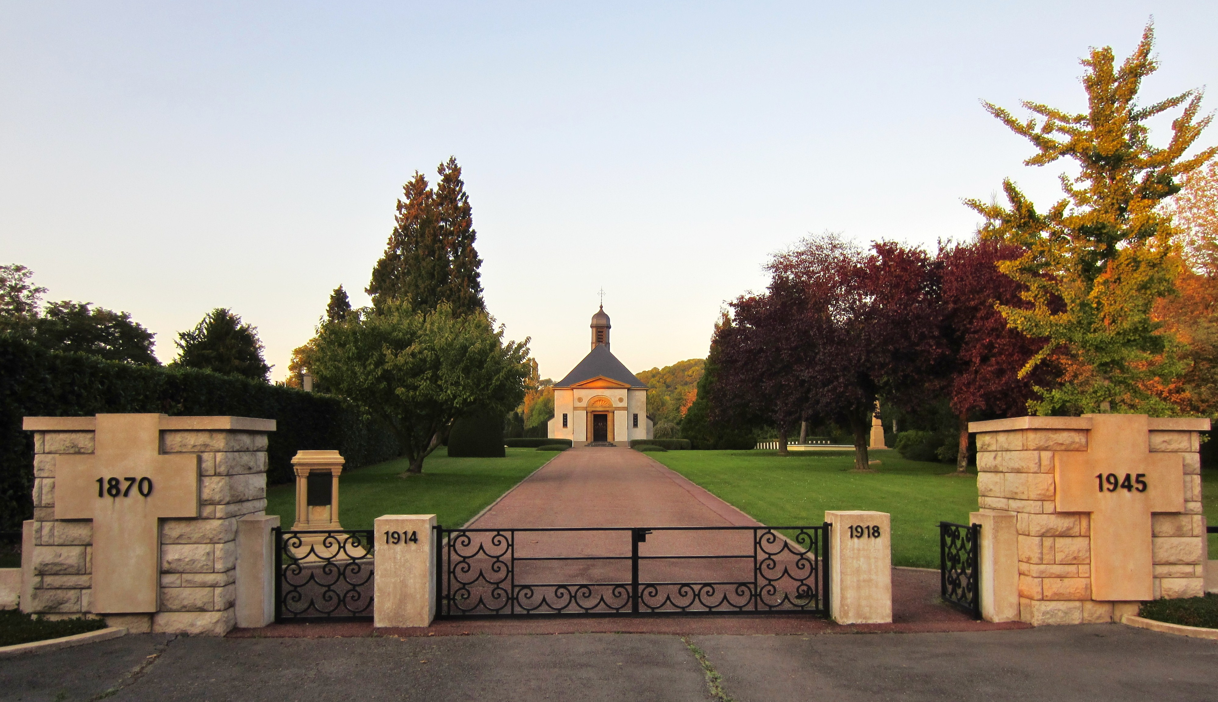 Description cimetiere militaire Metz Chambiere Date14 November 2011Sourcemon appareil photoAuthorAimelaimePermission(Reusing this file) cimetiere militaire Metz Chambiere